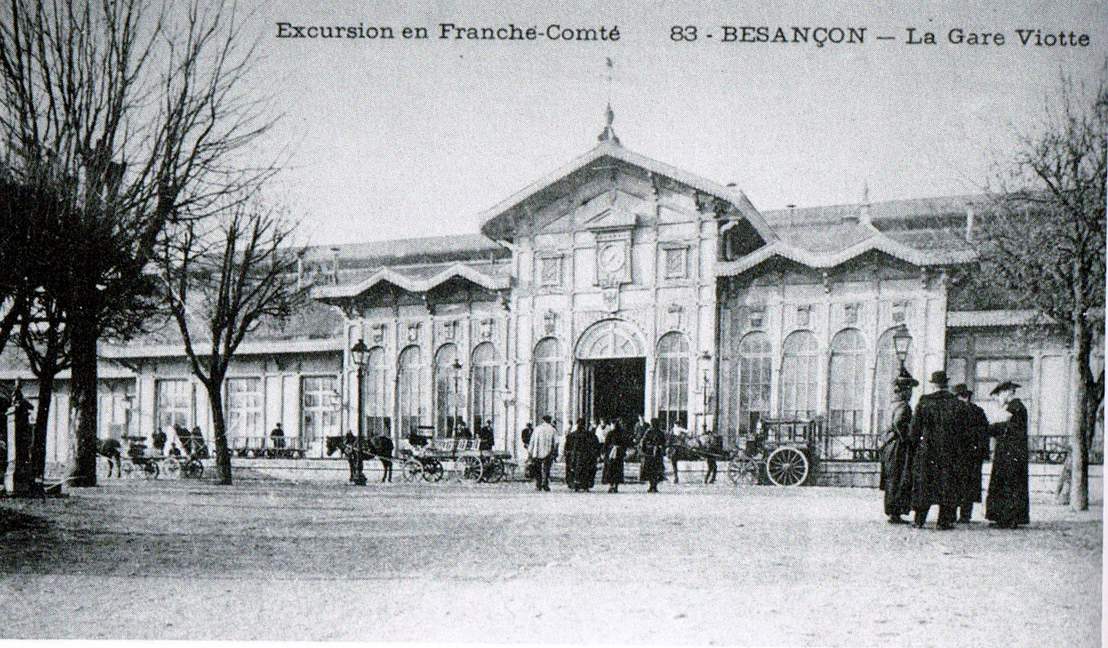 The train station of Besançon, in the beginning of XXe century.